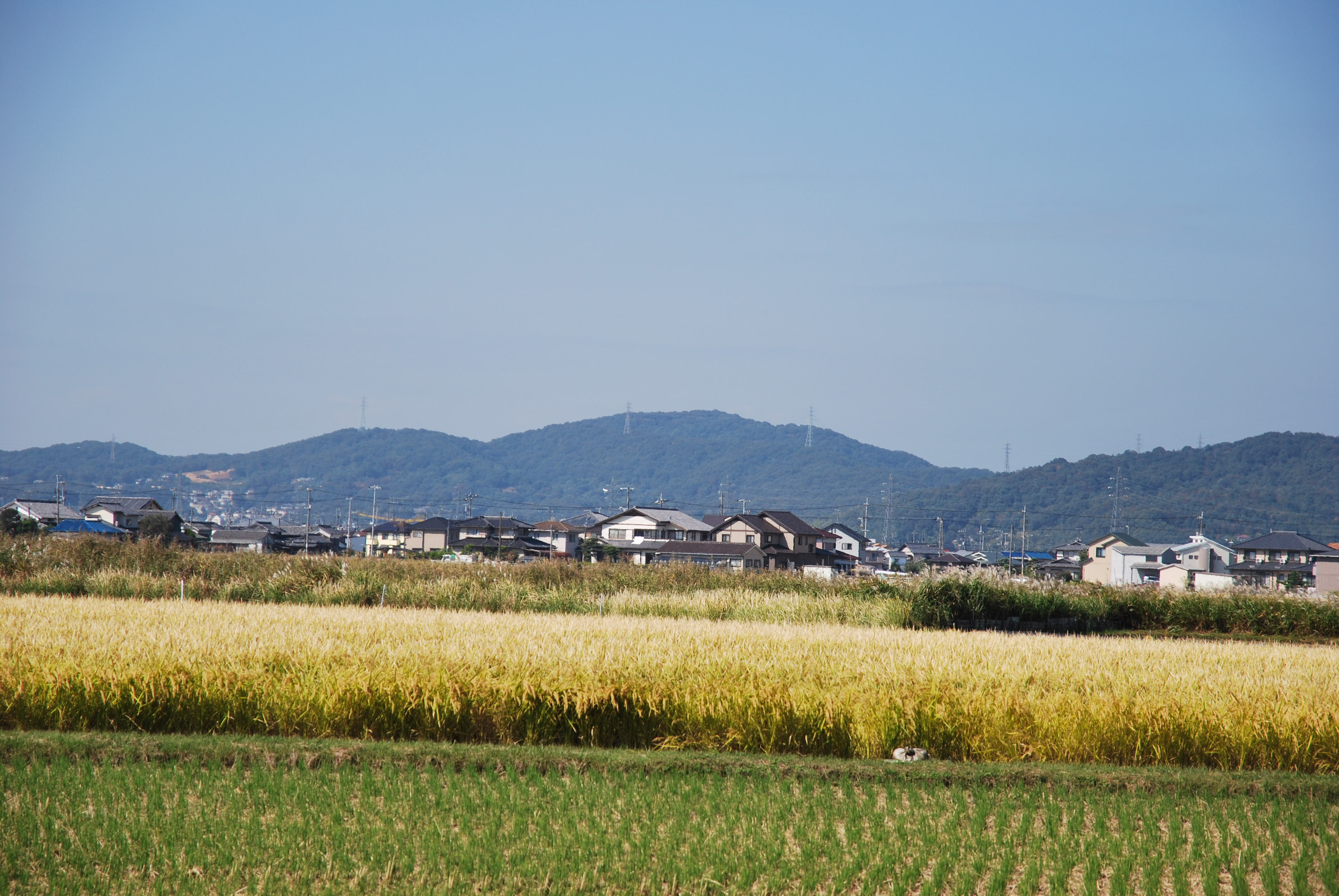 Distant view of Mount Misao